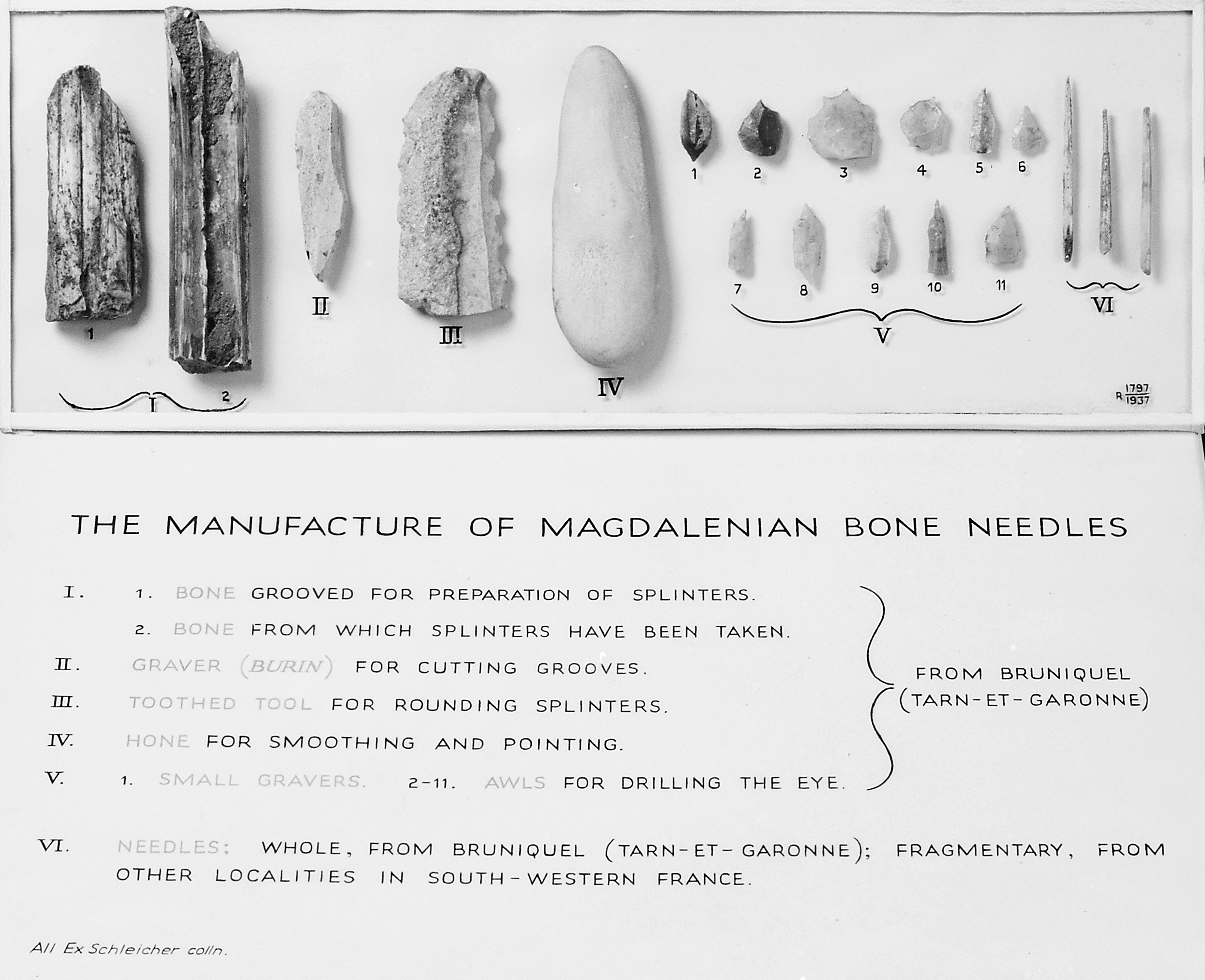 The manufacture of Magdalenian bone needles. Showing the bone from which splinters have been taken, gravers, hone, toothed tool for rounding splinters, and finished needles. Wellcome Images Keywords: prehistory; Surgical Instruments; Archaeology